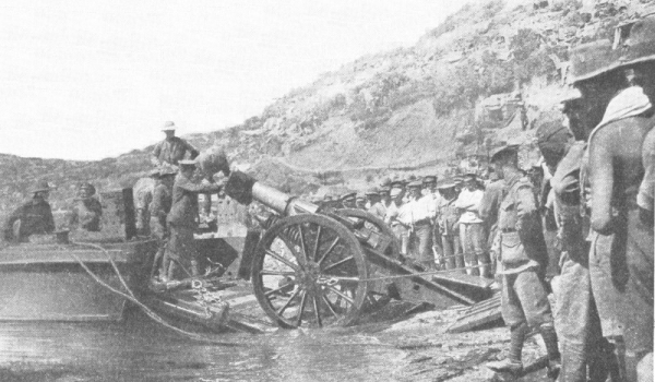 British BL 6 inch 30 cwt Howitzer being landed at Gallipoli, Anzac Cove, 1915.